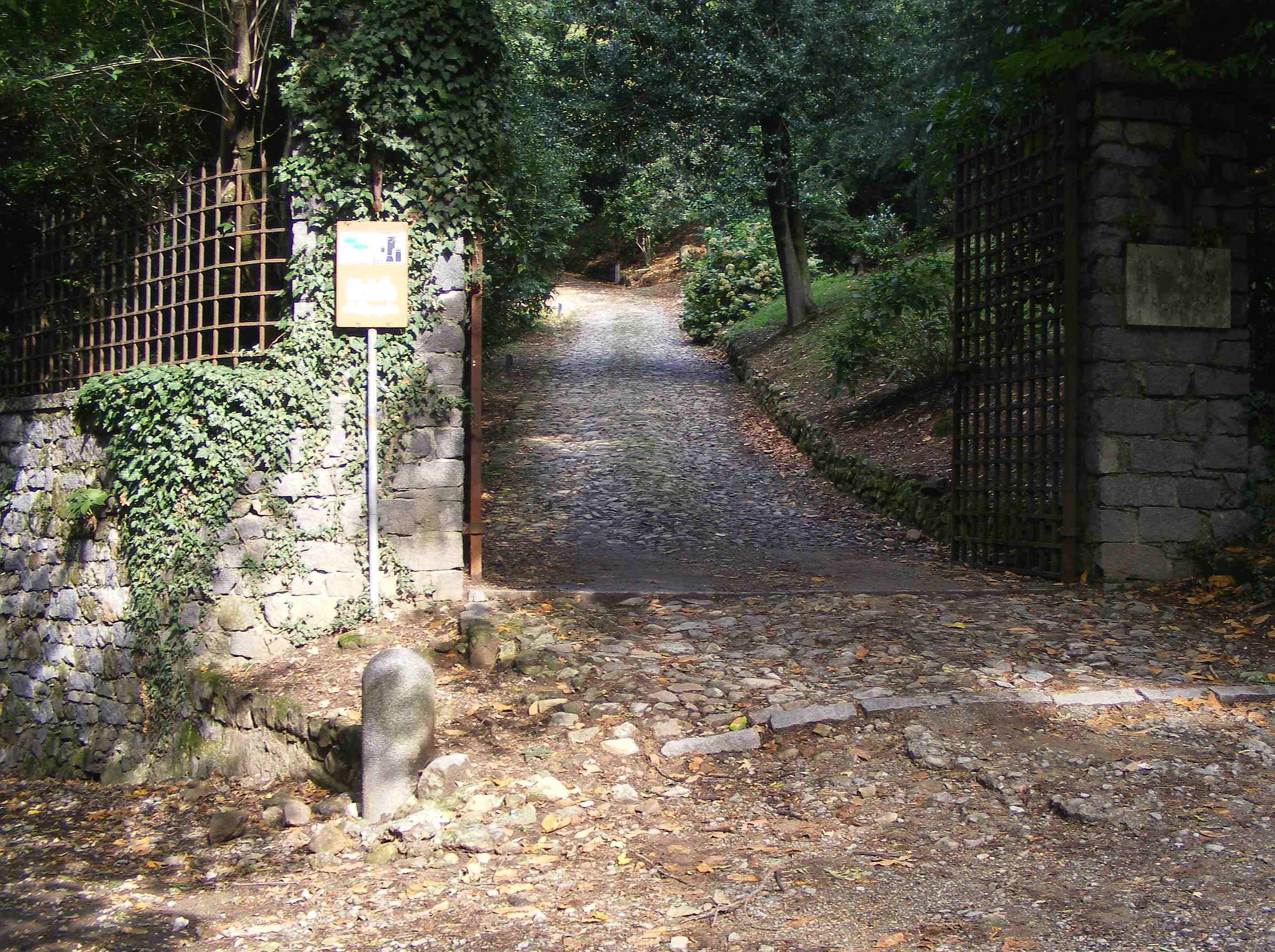 Zumaglia park entrance gate (BI, Italy)